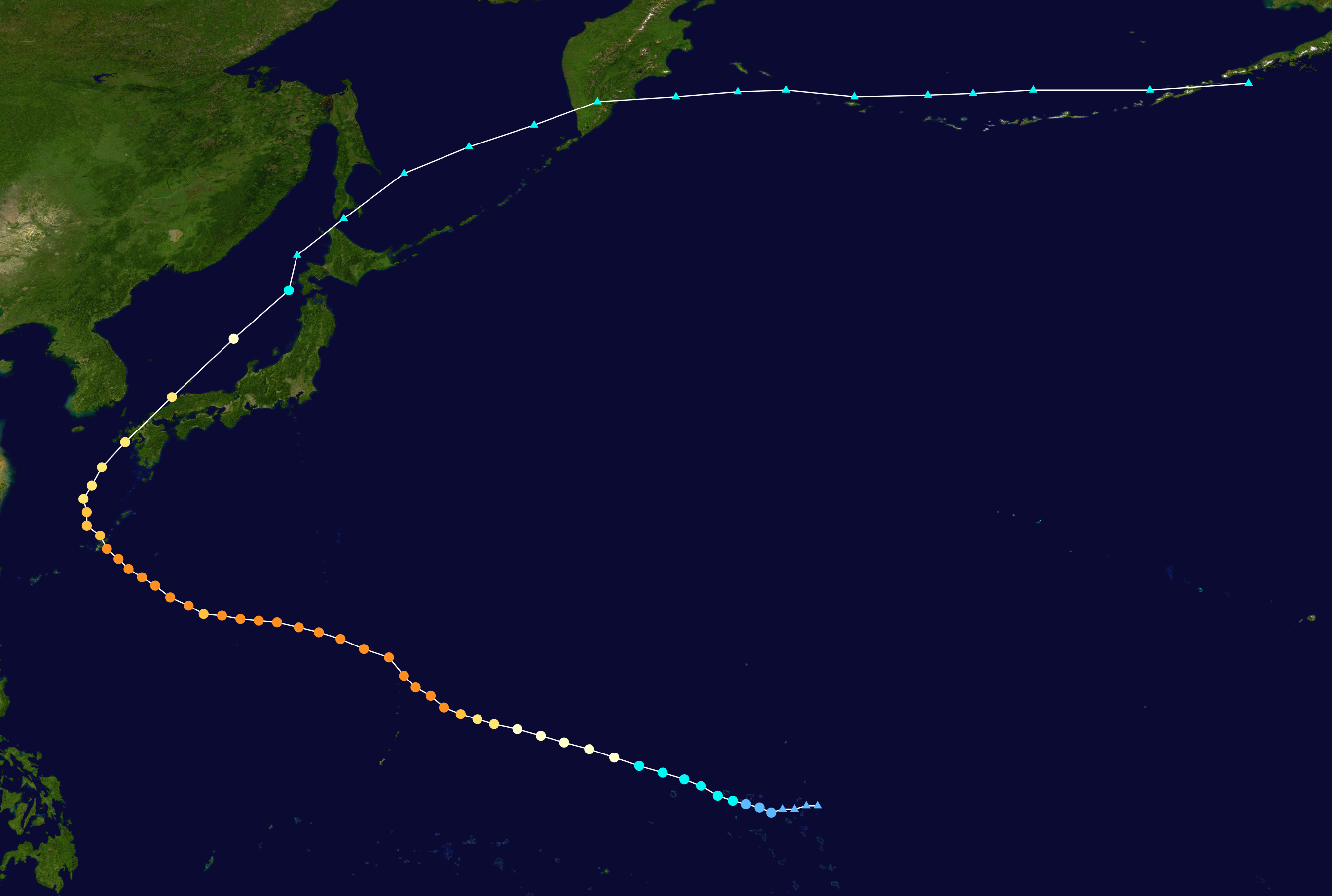 Typhoon Songda (2004) track. Uses the color scheme from the Saffir-Simpson Hurricane Scale.